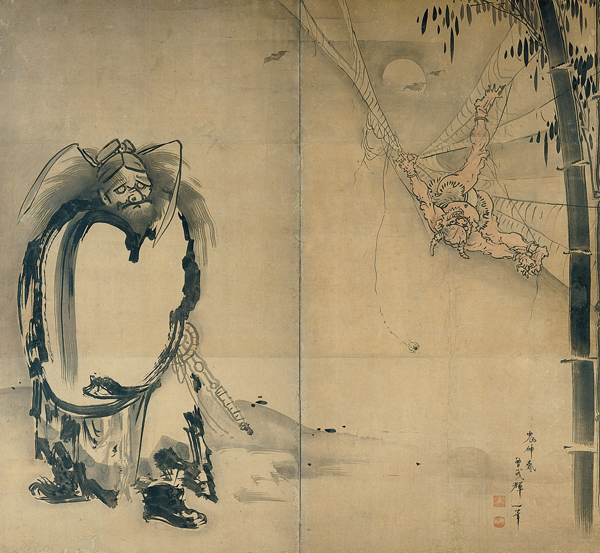 Shoki Ensnaring a Demon in a Spider Web by Soga Shohaku, 18th century, Japan, Edo period, Two-fold screen; ink on paper, Kimbell Art Museum